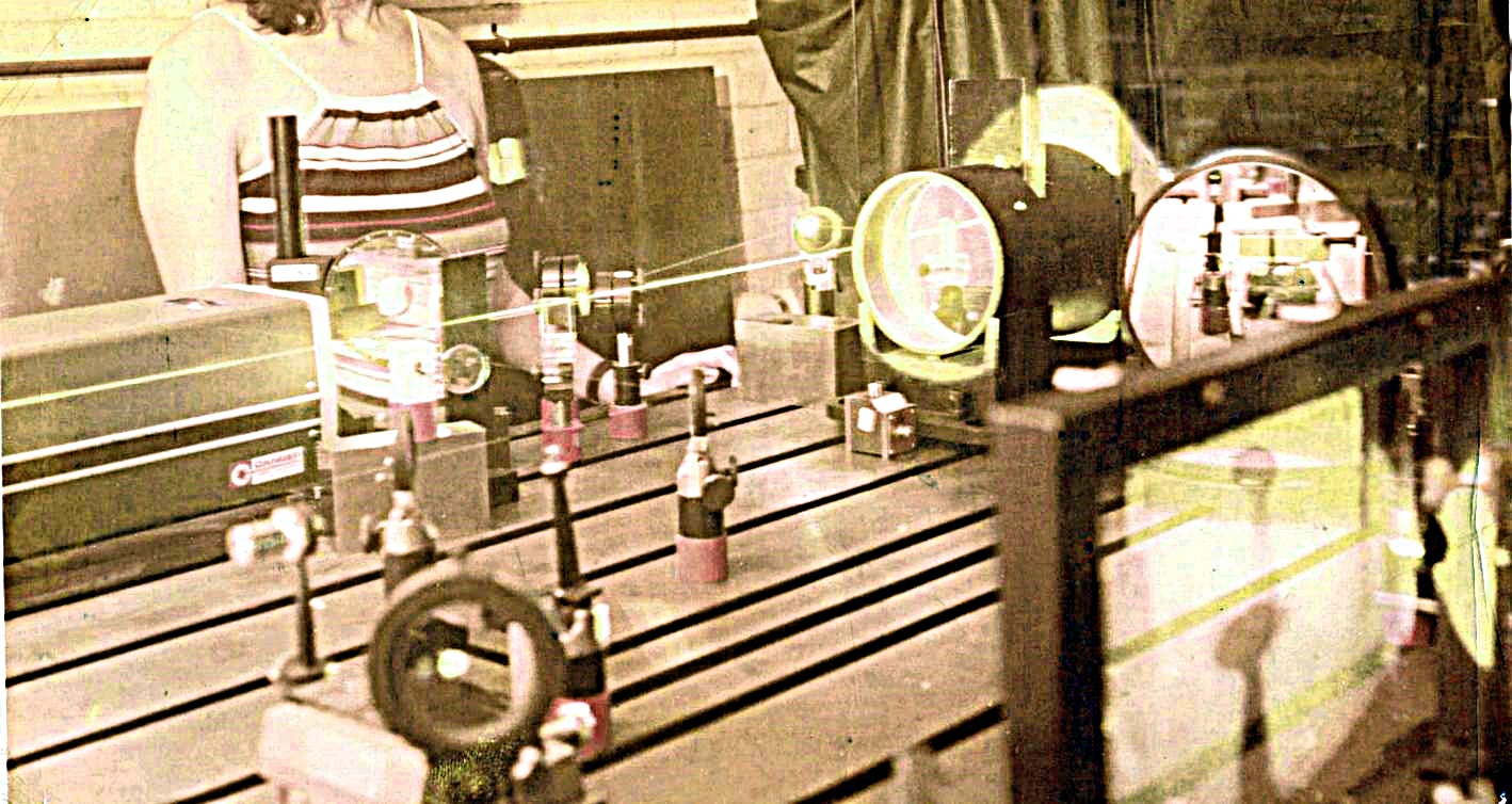 This a photograph of an optical table being used to make a hologram.